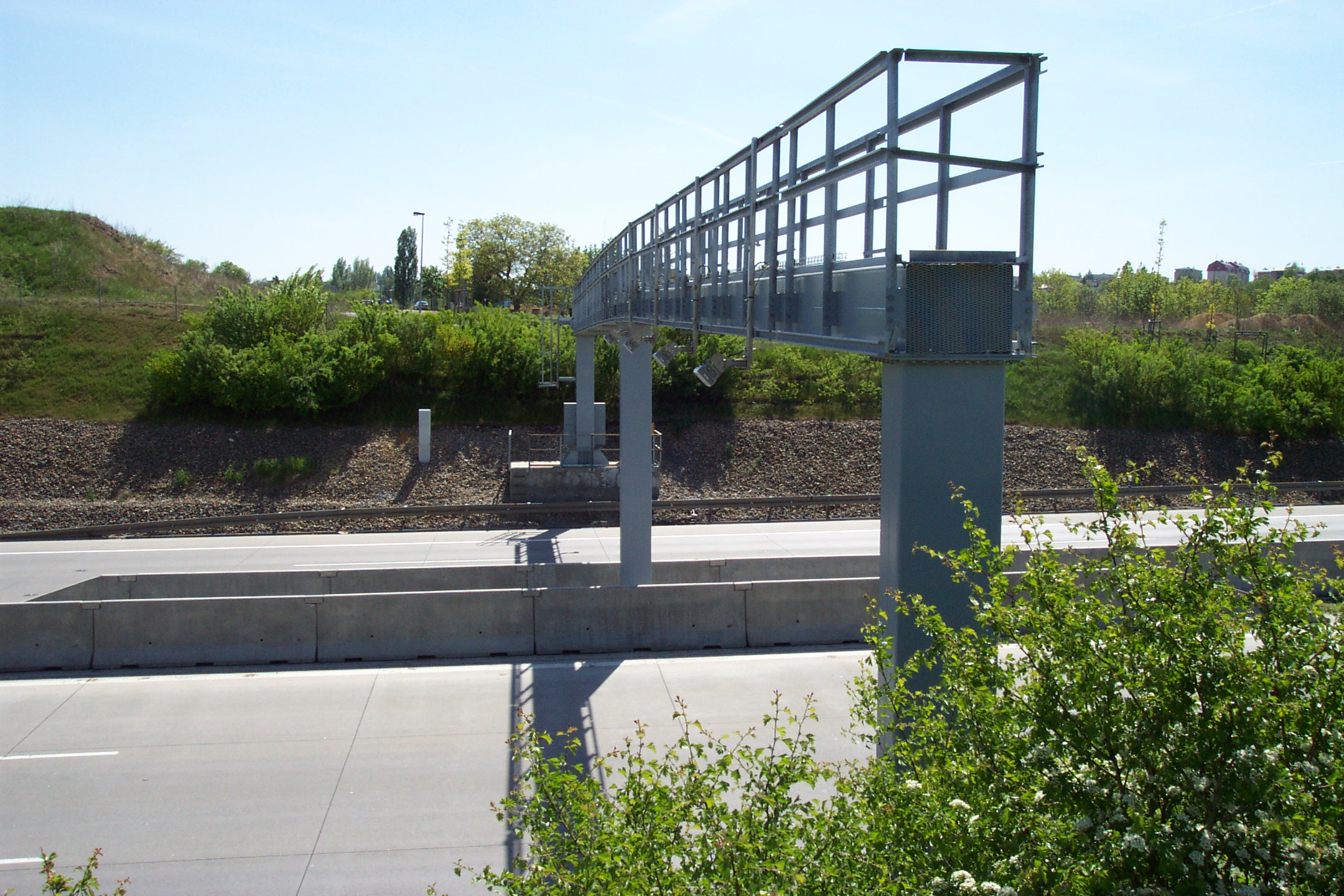 The Prague city Ring at Praha-Zličín, toll gateway